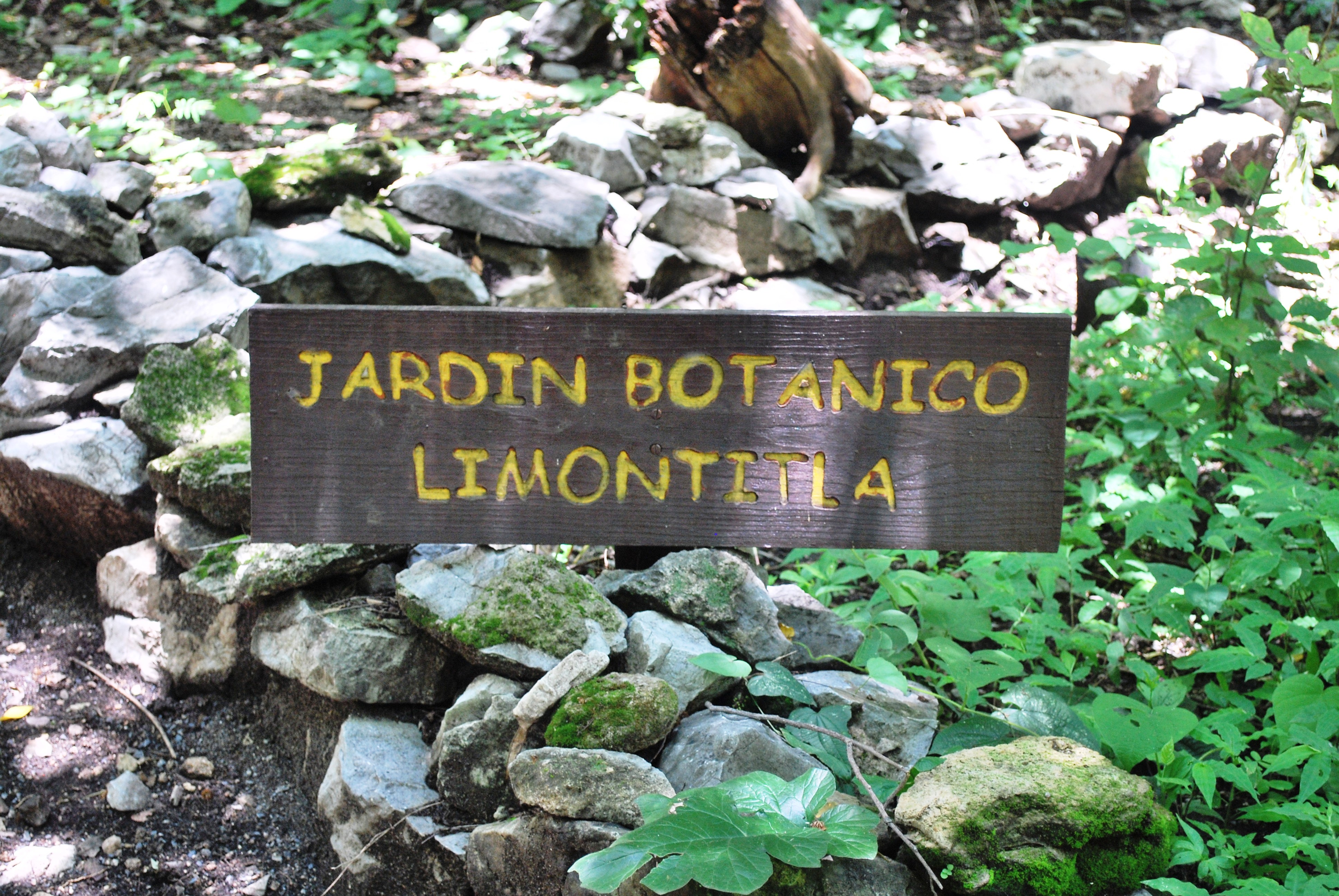 Sign at Limontitla Botanical Garden in the Grutas de Cacahuamilpa National Park in Guerrero state, Mexico City